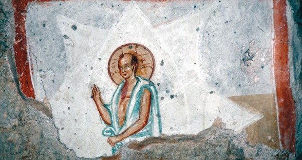 Frescoes of bold Christ